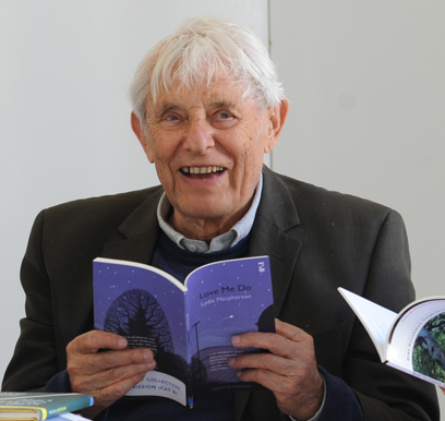 Dannie Abse at the Forward Poetry Prize judging meeting 2014